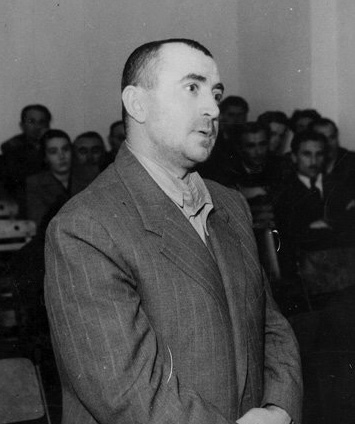 Koçi Xoxe during his trial on May 1949